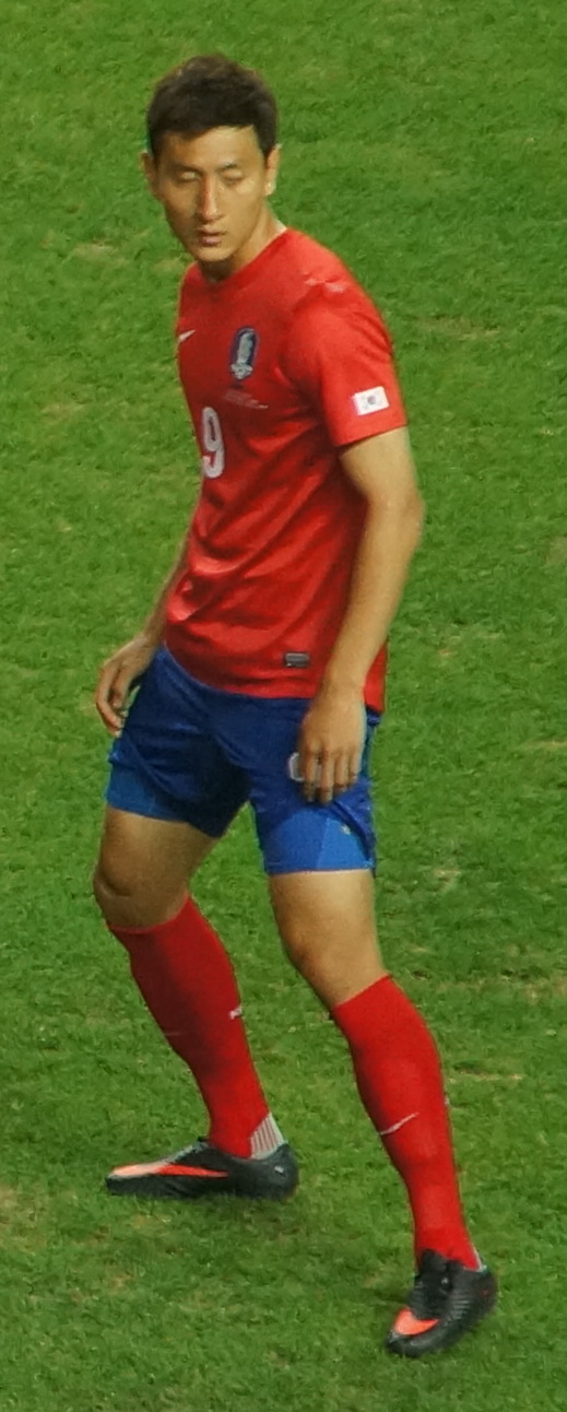 Ji Dong-won.